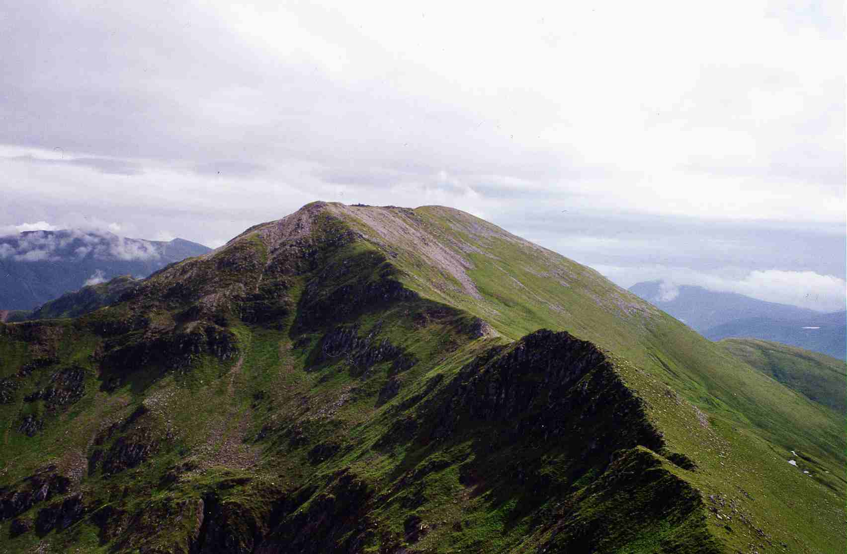 Personal picture taken by Mick Knapton 20:43, 19 February 2007 (UTC)